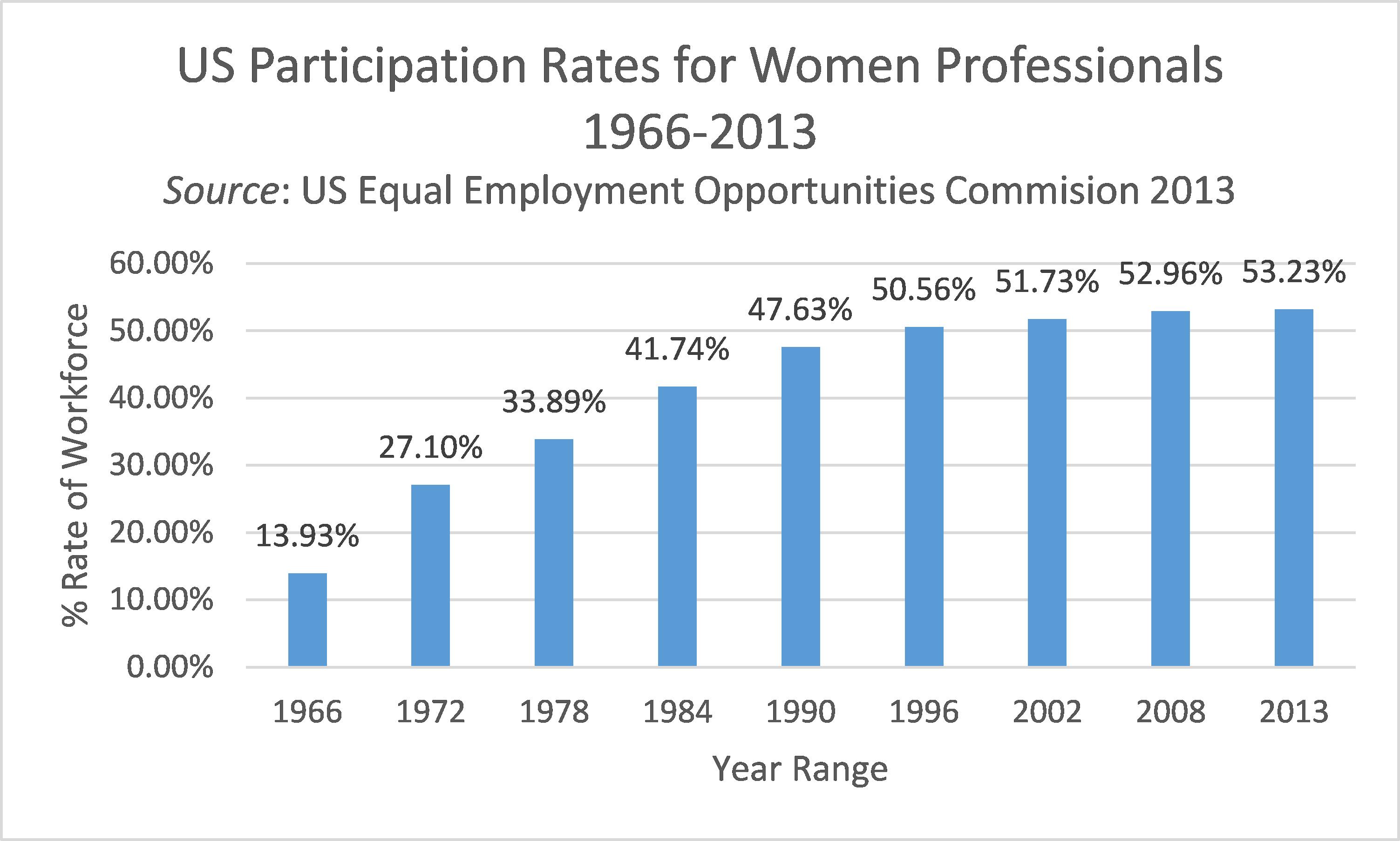 The chart shows women participation rates in the US workforce between 1966 and 2013.